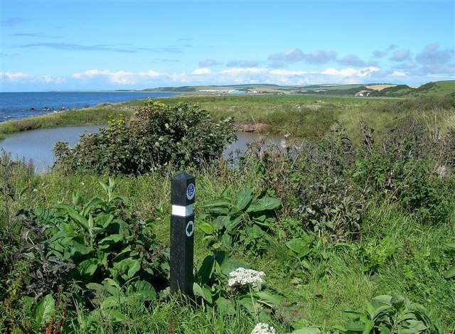 On The Coastal Path A pool beside the new Ayrshire Coastal Path. At this point, the path leaves the old track from Girvan Mains and rejoins the beach. For more information on the Ayrshire Coastal Path